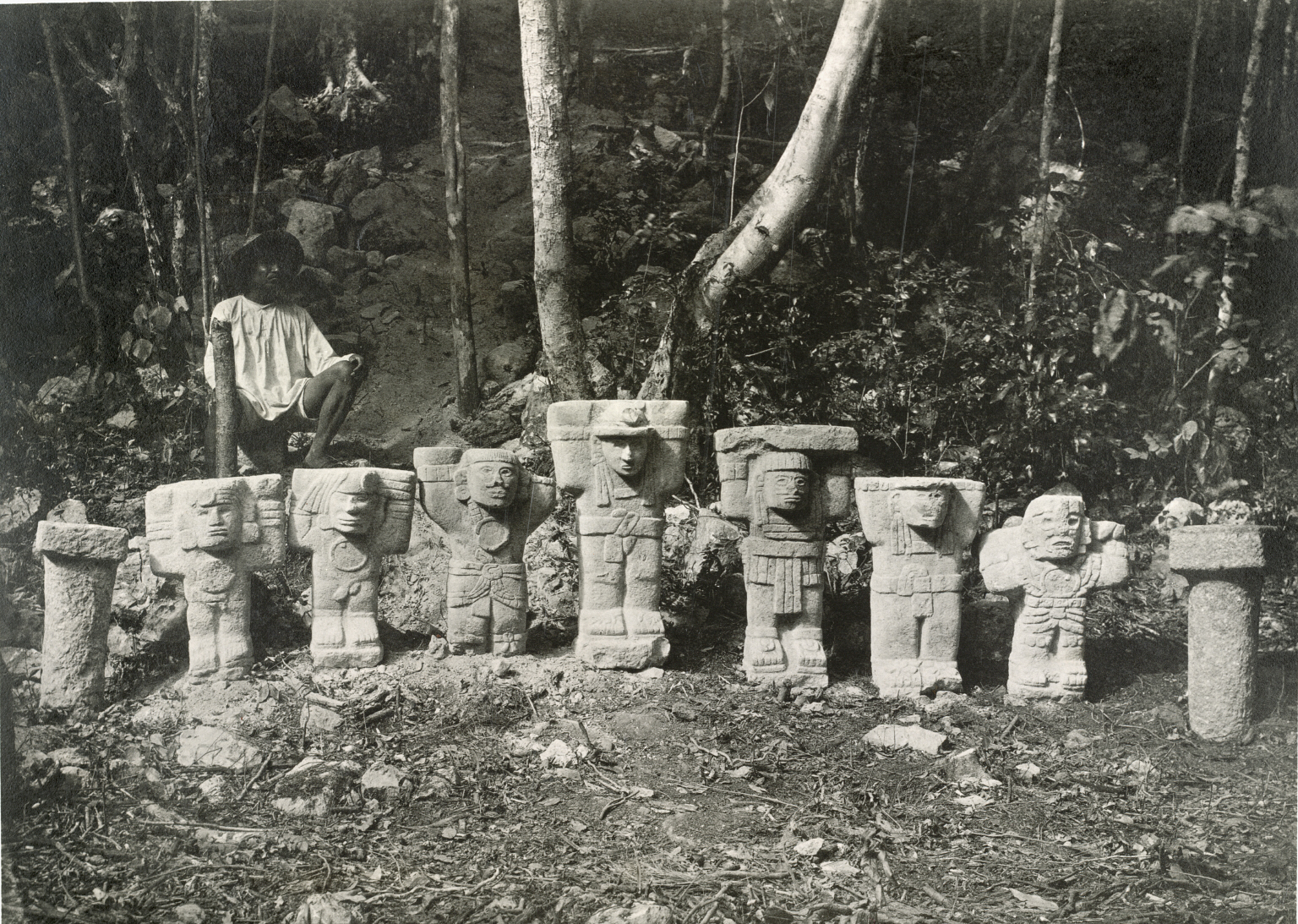 Collection: A. D. White Architectural Photographs, Cornell University Library Accession Number: 15/5/3090.00639 Title: Atlantean Figures from Temple of Jaguars, Chichén Itzá Photograph date: ca. 1895-ca. 1935 Building Date: 9th-12th century Location: North and Central America: Mexico; Chichen Itzá Materials: gelatin silver print Image: 6.5 x 9 in.; 16.51 x 22.86 cm Style: Mayan Provenance: Transfer from the College of Architecture, Art and Planning Persistent URI: There are no known U.S. copyright restrictions on this image. The digital file is owned by the Cornell University Library which is making it freely available with the request that, when possible, the Library be credited as its source. We had some help with the geocoding from